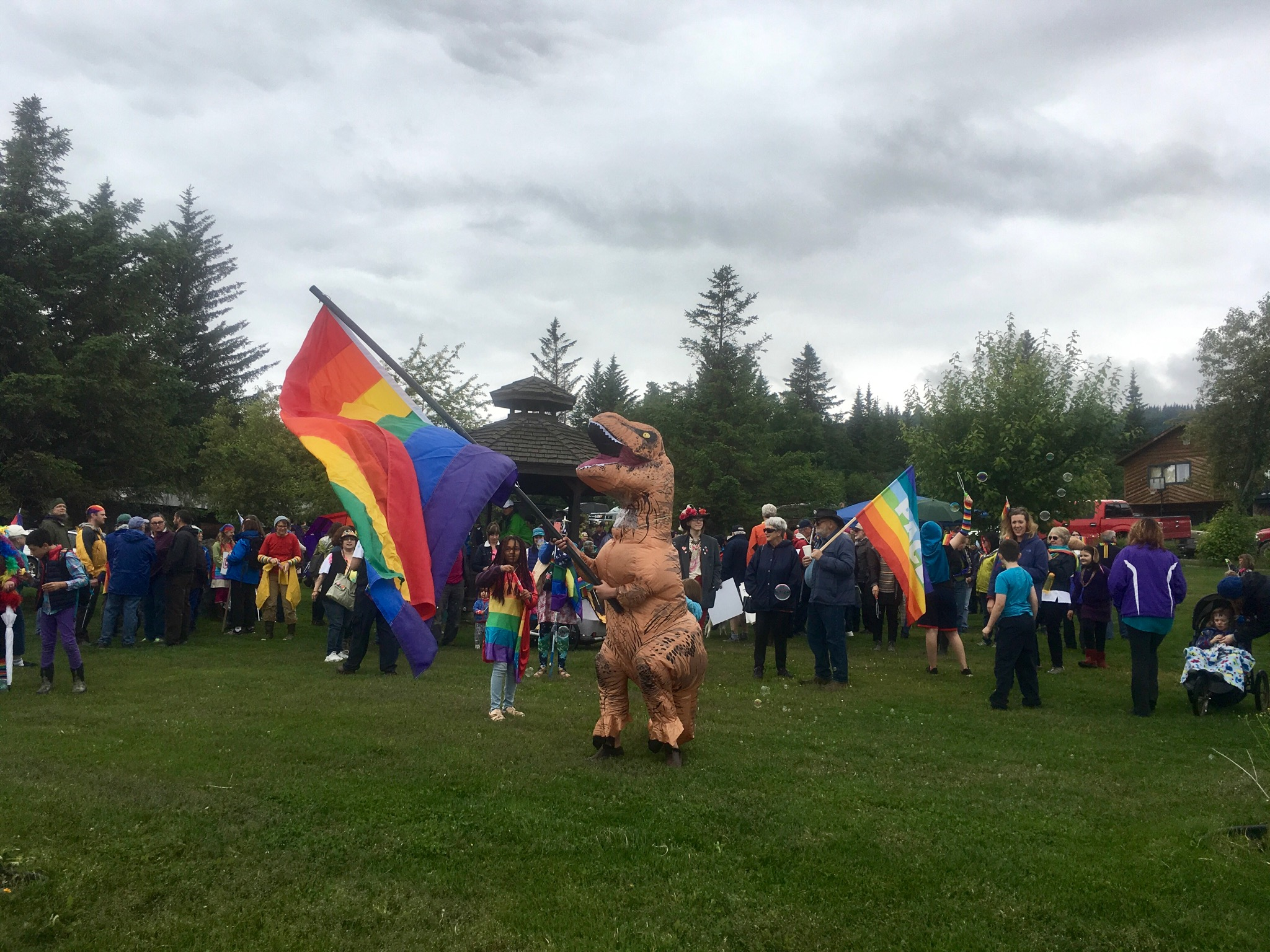 Dinosaur at the first LGBTQ Pride March in Homer, AK